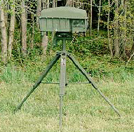 M21 chemical agent detector, being phased out